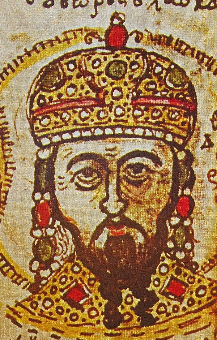 Theodore I Laskaris, Emperor of Nicaea (1208–1222)